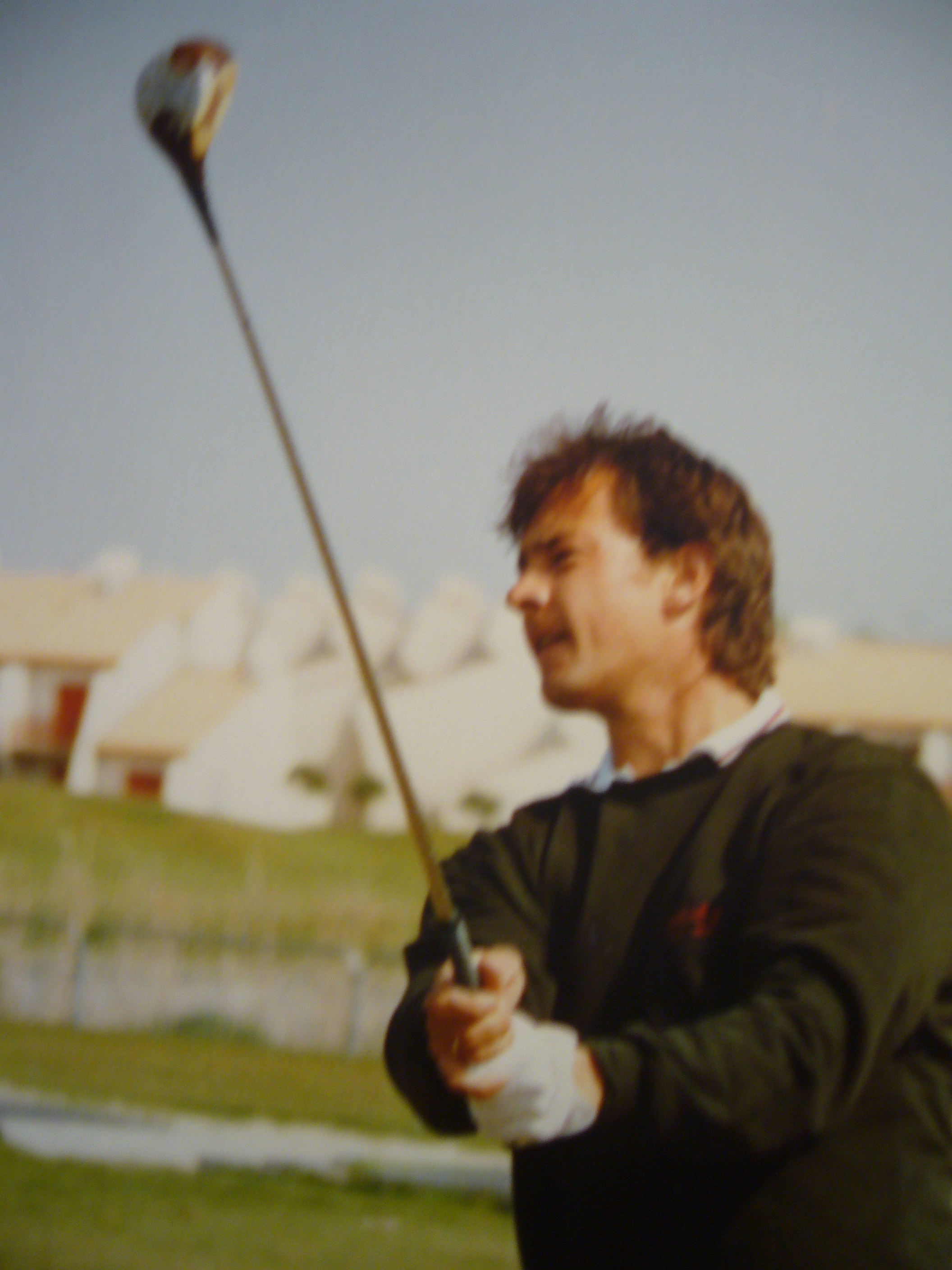 Torsten Gideon, German professional golfer, in 1990 at the AGF Open